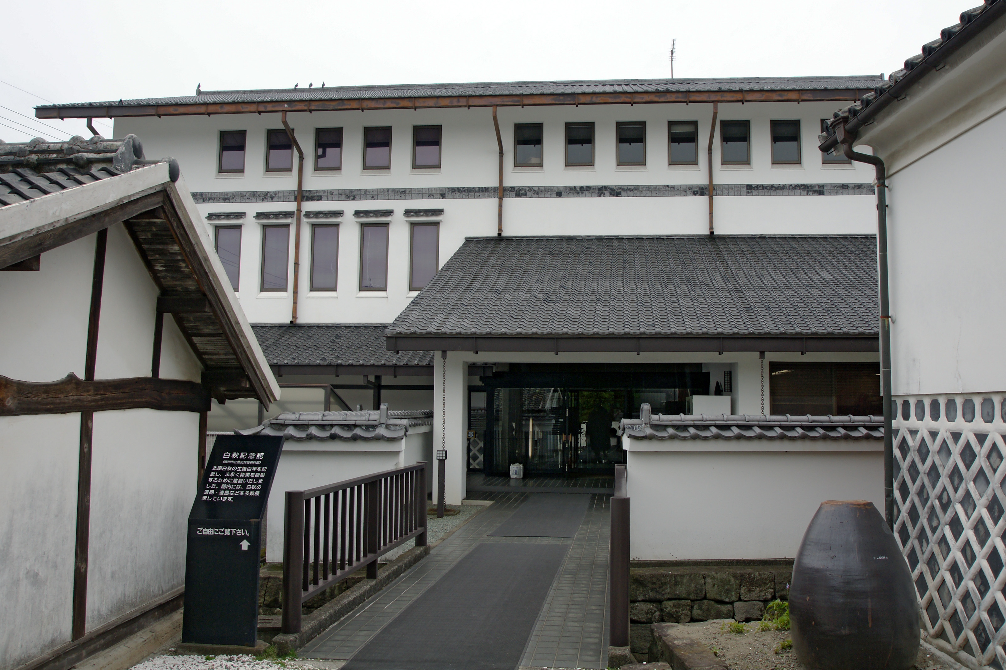 Kitahara Hakushu Memorial Park, Yanagawa, Fukuoka prefecture, Japan